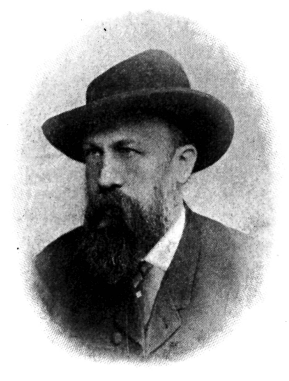 Ludwig Stieda